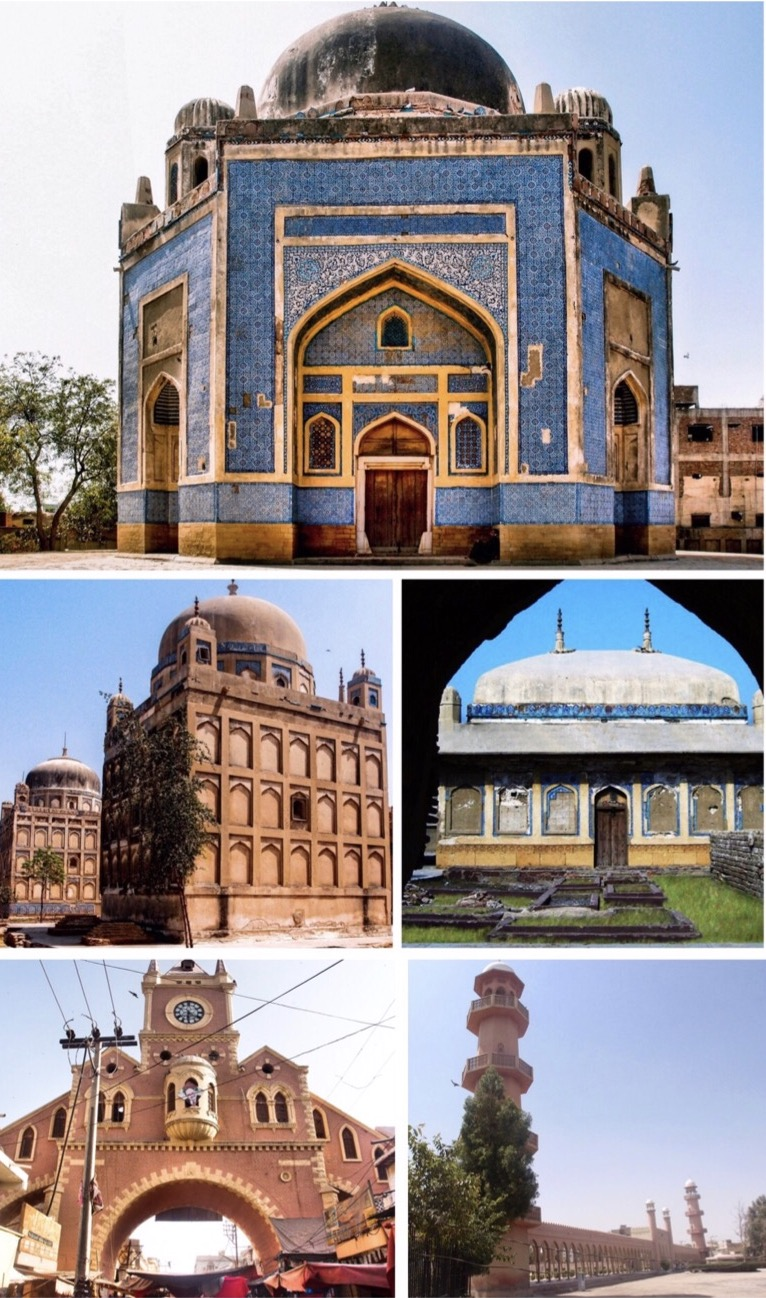 A montage of Hyderabad Pakistan